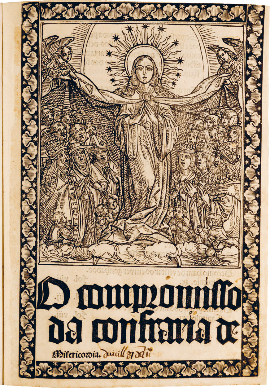 O Compromisso da Confraria de Misericórdia (1516)